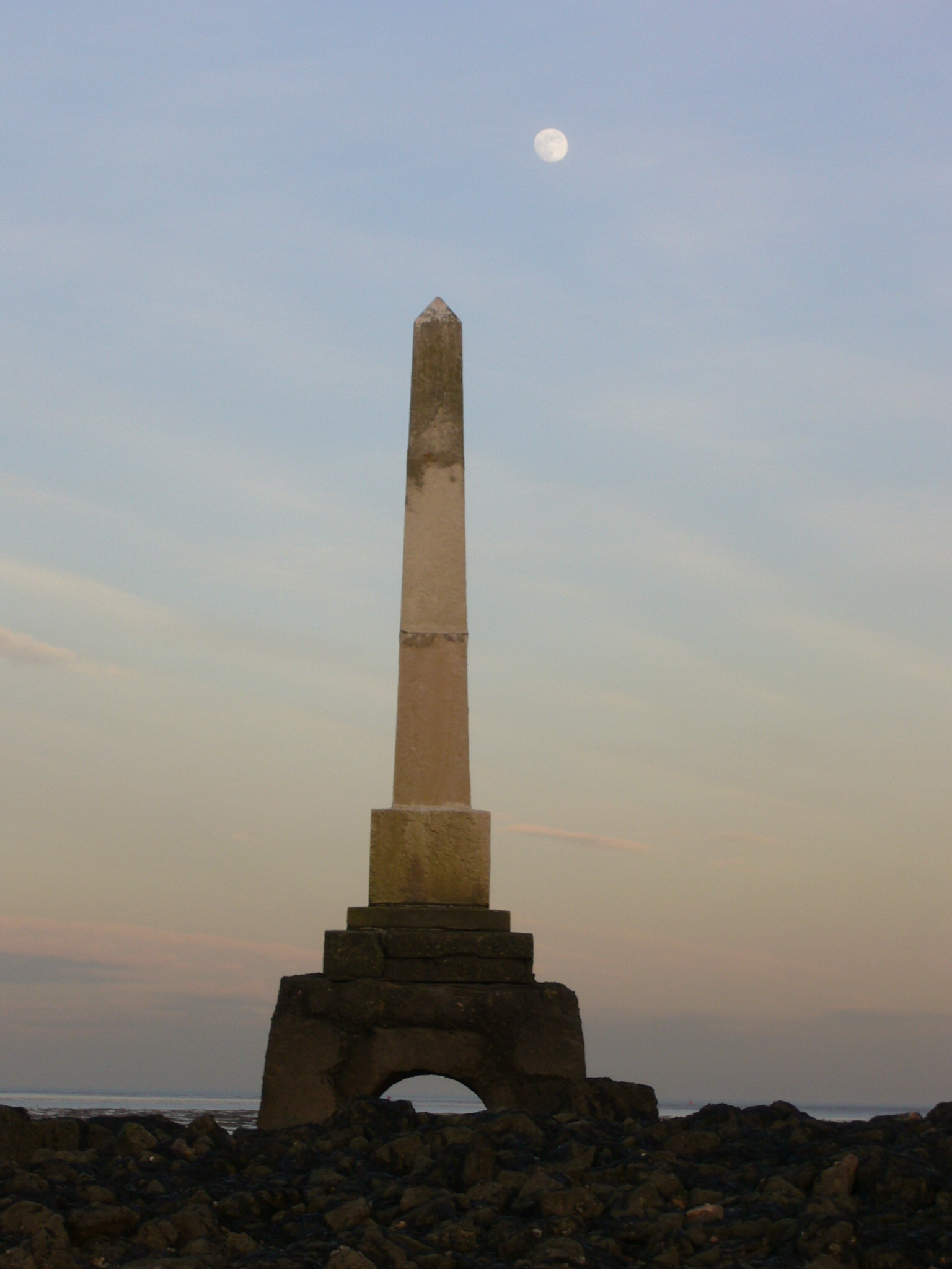 The moon rising behind the London Stone at grid reference TQ 860 786 at the mouth of Yantlet Creek on the Isle of Grain. More images.